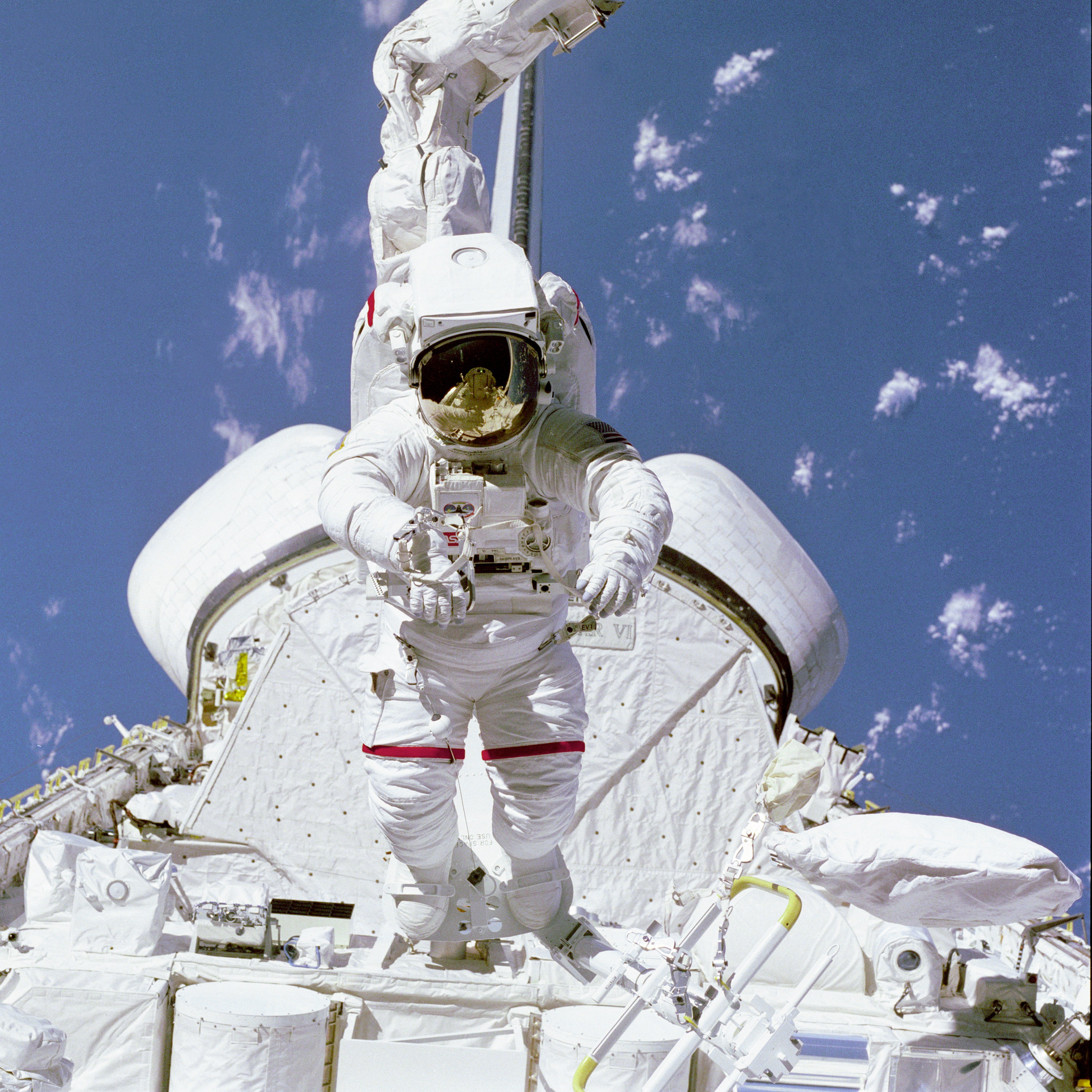 Astronaut Bruce McCandless II, STS-41B mission specialist, tests a Mobile Foot Restraint (MFR) attached to the Remote Manipulator System (RMS) aboard the Space Shuttle Challenger. McCandless appears to be walking on cargo, but is realy being flown over it by the combination MFR and RMS. His helmet visor reflects parts of the payload bay that can't be seen in the larger portion of the photo. Behind him can be seen both the Orbital Maneuvering System (OMS) pods.